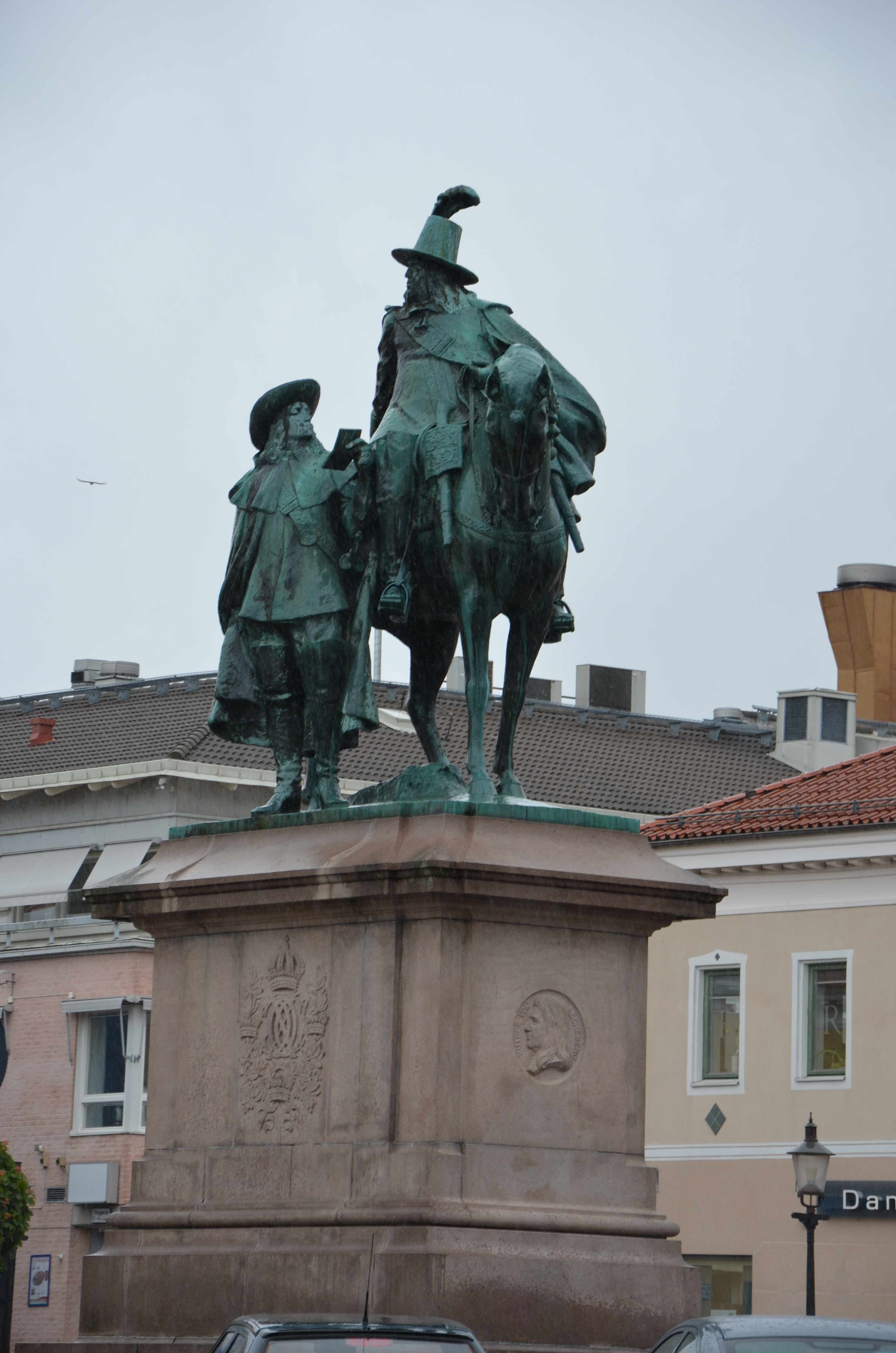 Statue by Theodor Lundberg of King Karl X Gustav at Kungstorget in Uddevalla